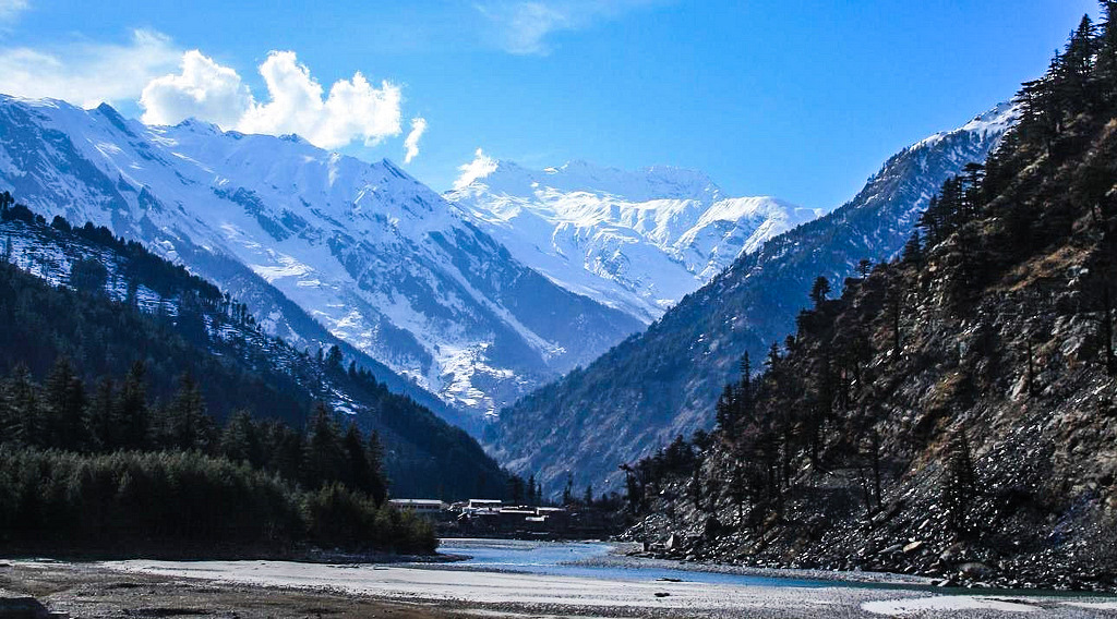 Harsil, A small village en route to gangotri